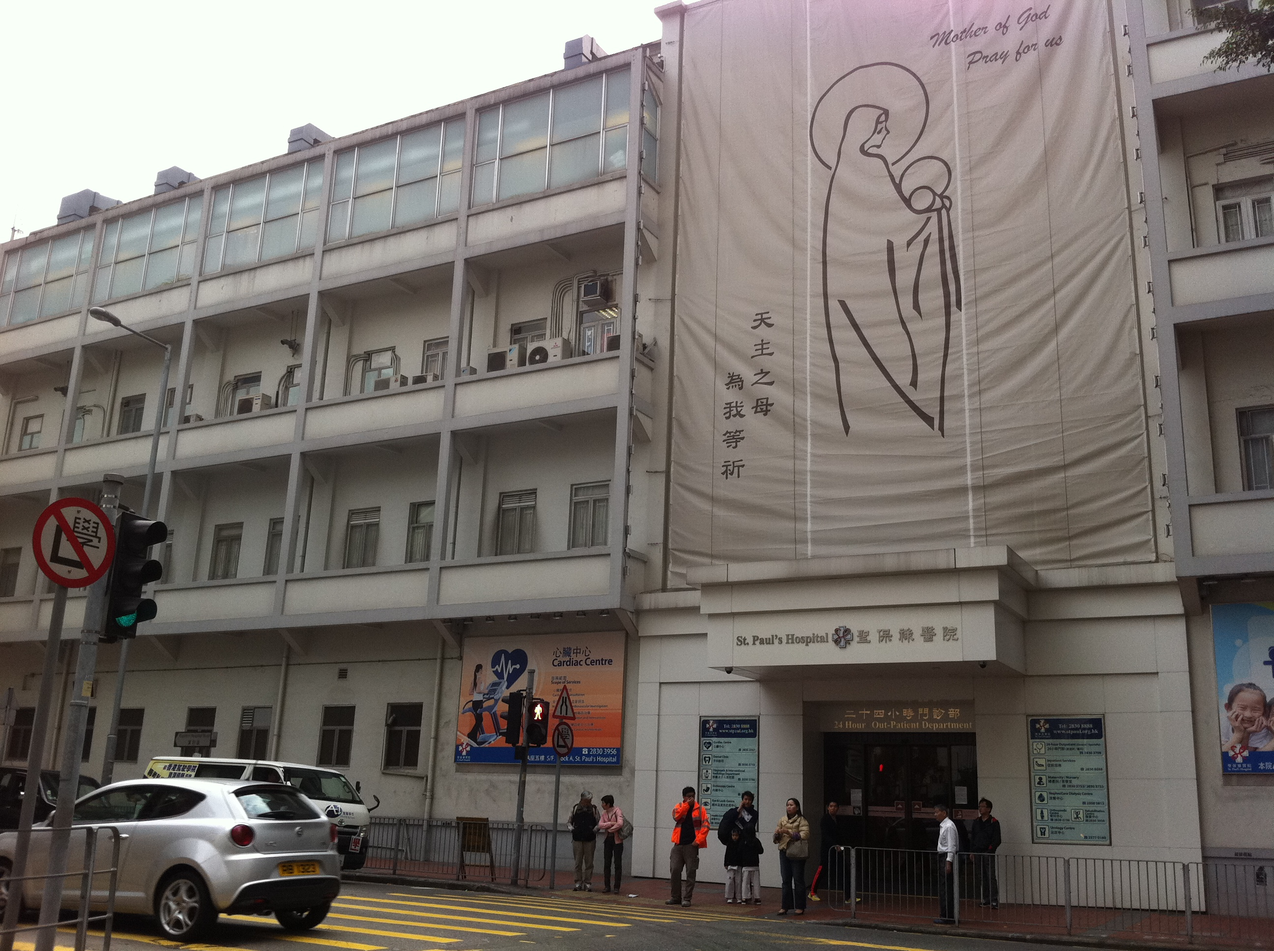 銅鑼灣道, Tung Lo Wan Road, Causeway Bay, Hong Kong